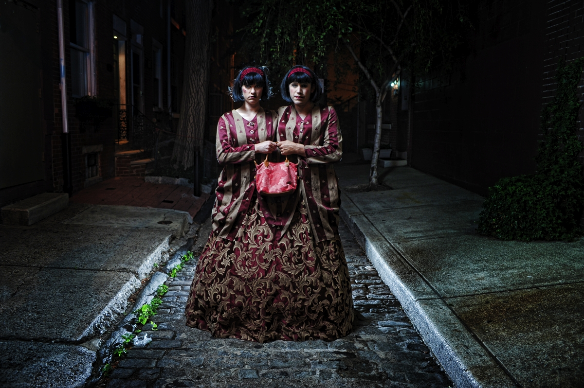 Evelyn Evelyn